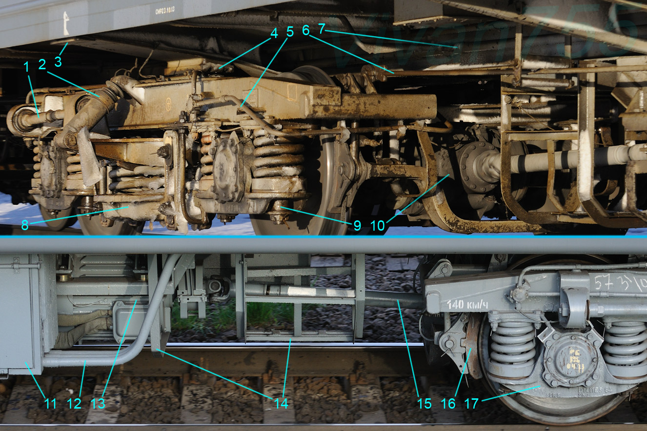 1 — link, 2 — damper, 3 — lifting point, 4 — shoe, 5 — journal-box overheat alert wire, 6 — brake connection, 7 — brake pipe, 8 — pallet, 9 — chair of spring, 10 — gear case, 11 — high-voltage box, 12 — high-voltage line, 13 — generator, 14 — safety gears, 15 — drive shaft, 16 — checkblock, 17 — journal-box